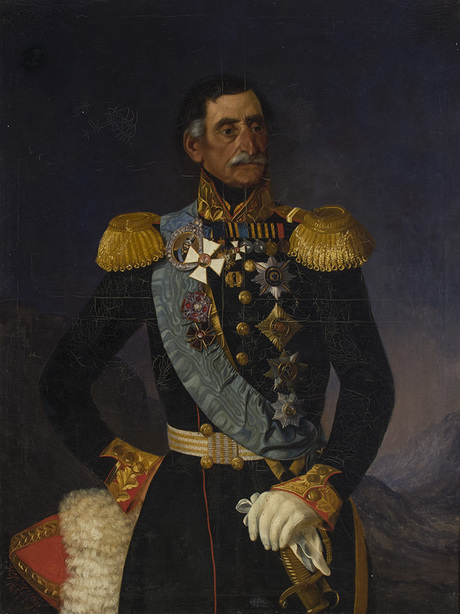 Portrait of Bebutov Vasiliy Osipovich by S. Nersisian